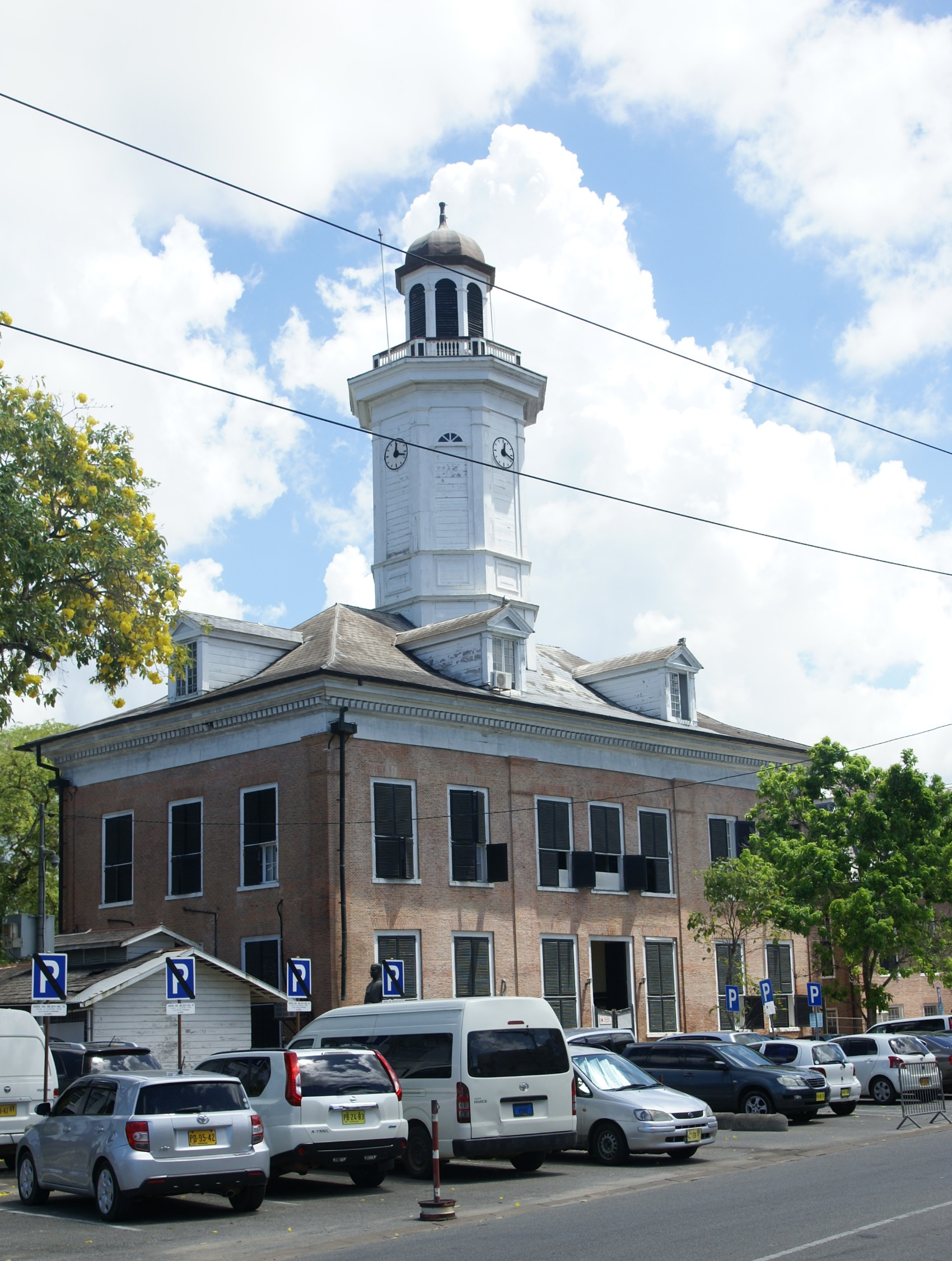 Onafhankelijkheidsplein 2, Paramaribo, Surinam. Back of the building, Mr Dr J.C. de Mirandastraat.